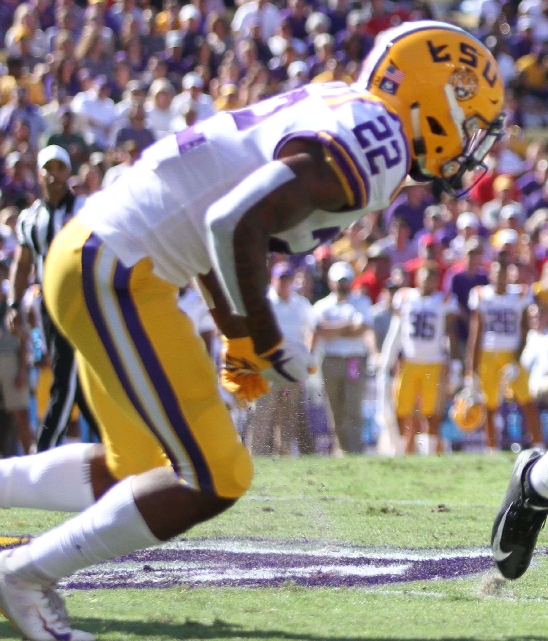 Georgia Bulldogs running back Elijah Holyfield (13) dodging LSU Tigers cornerback Kristian Fulton (22), Georgia Bulldogs vs LSU Tigers, Football, Tiger Stadium, October 13, 2018, Baton Rouge, Louisiana, Tammy Anthony Baker, Photographer